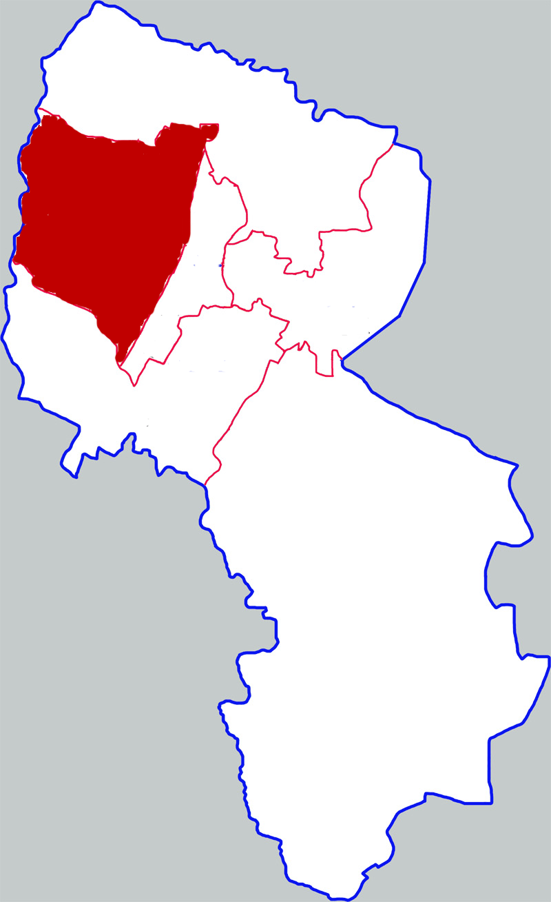 Location of Xixia district in Yinchuan city, China